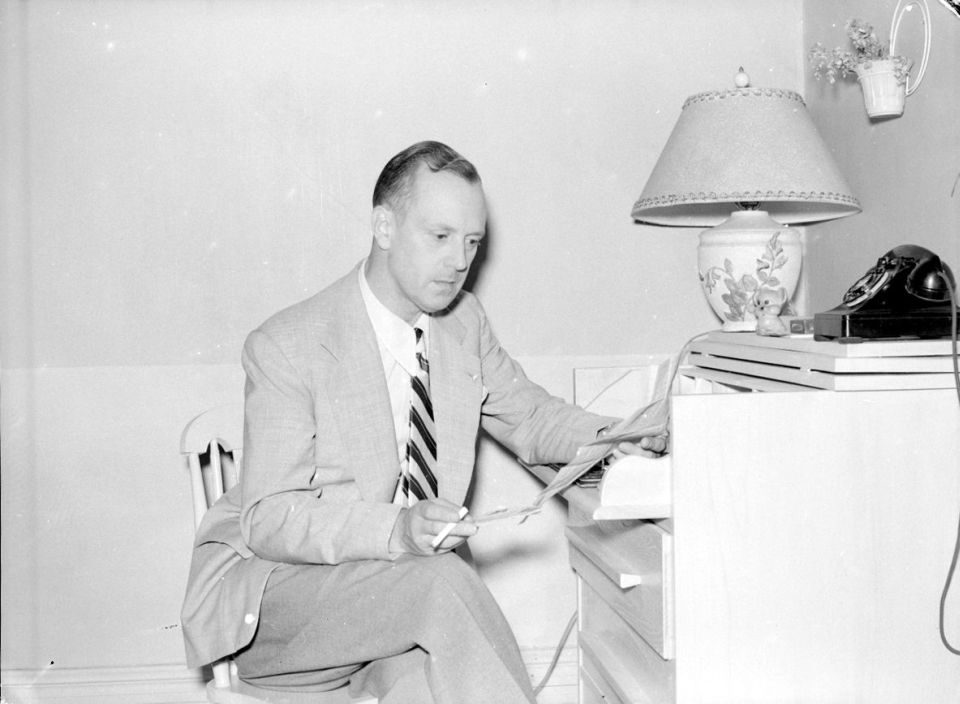 Catelain Jacques, director of French origin movies, reading a paper sitting at a secretary.